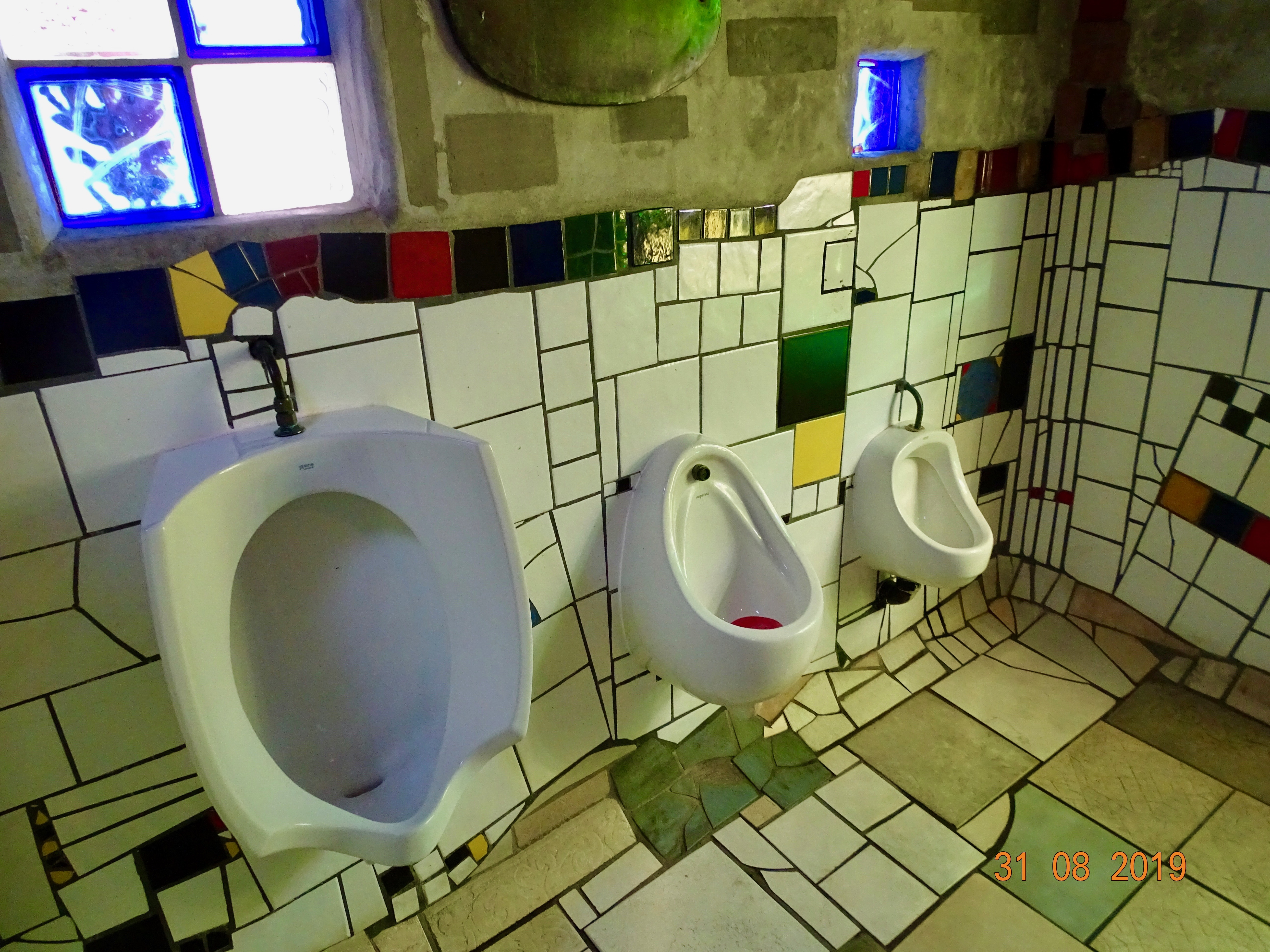 Men's toilet inside in spring 2019